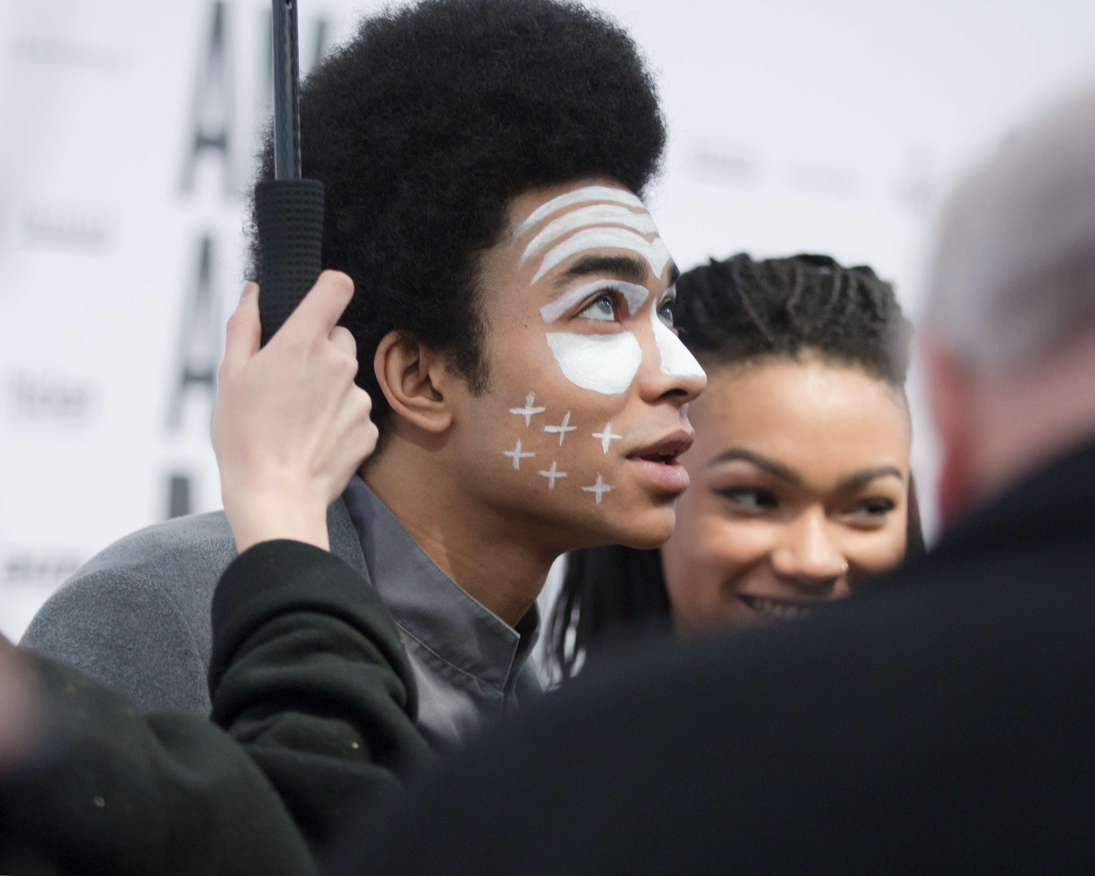 Kimyan Law at the Amadeus Austrian Music Award 2017 at Volkstheater in Vienna.